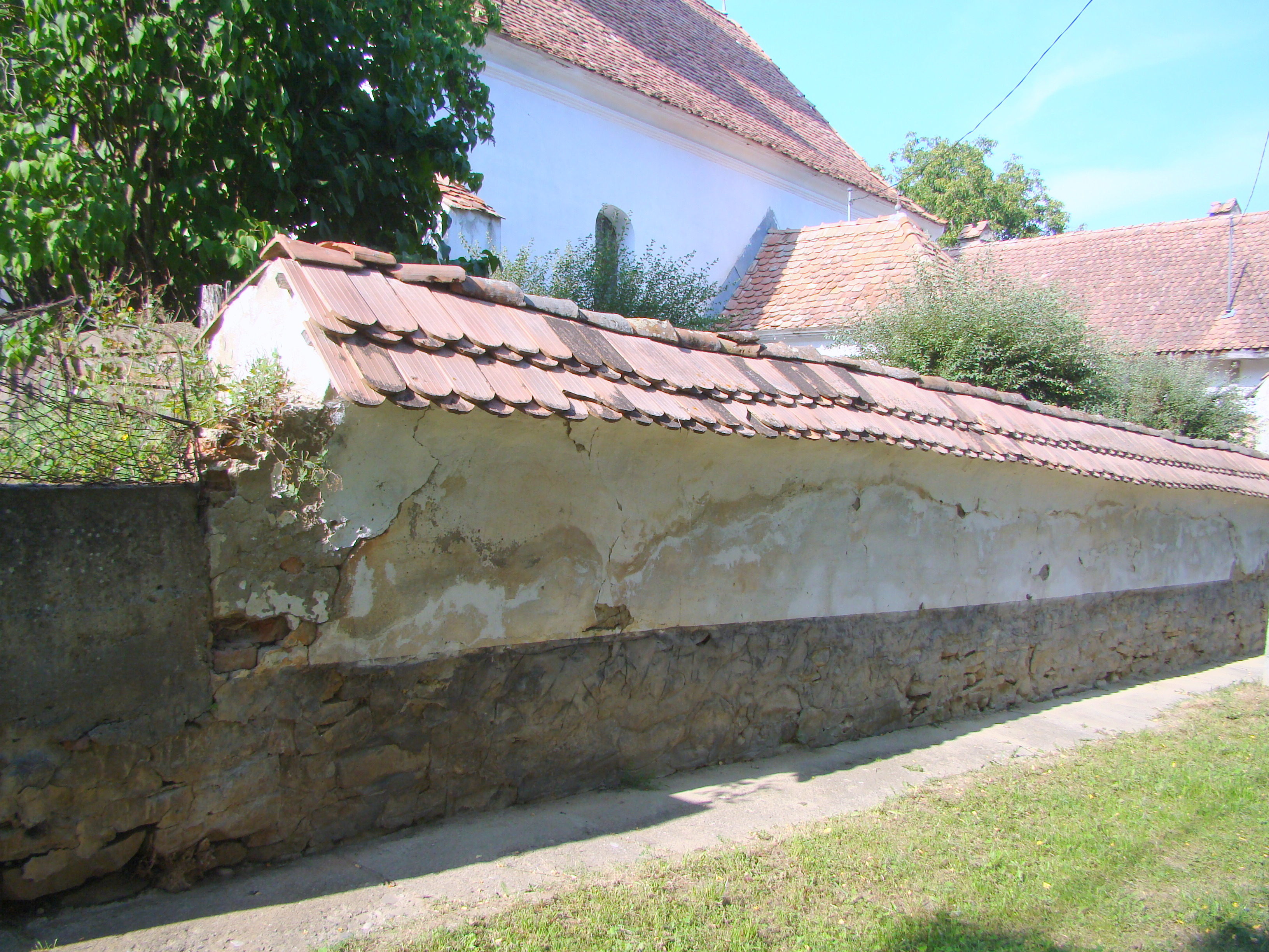 Reformed church in Mătișeni, Harghita County, Romania